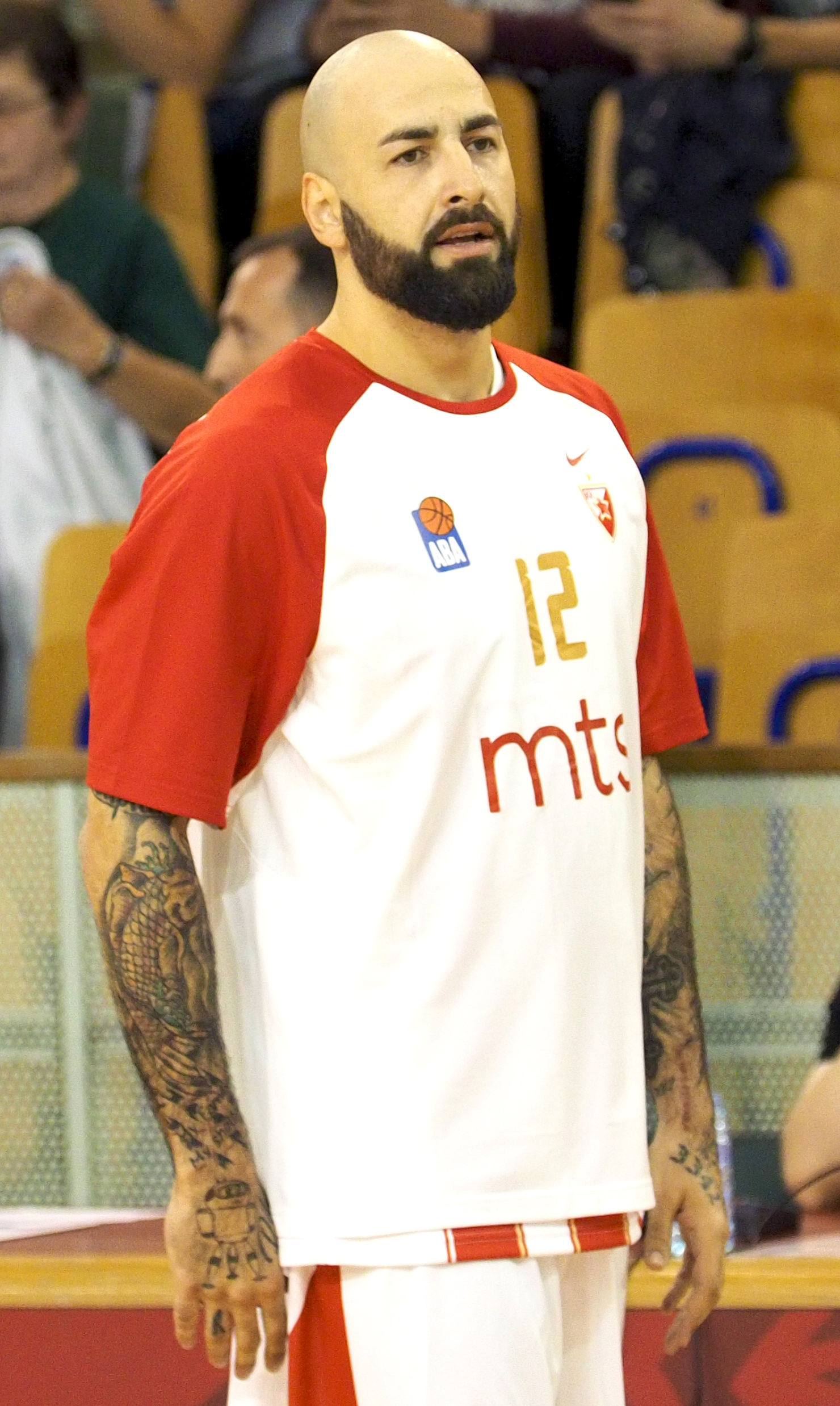 Pero Antić with KK Crvena Zvezda, 2017 This photograph was taken with a Olympus E-M1.